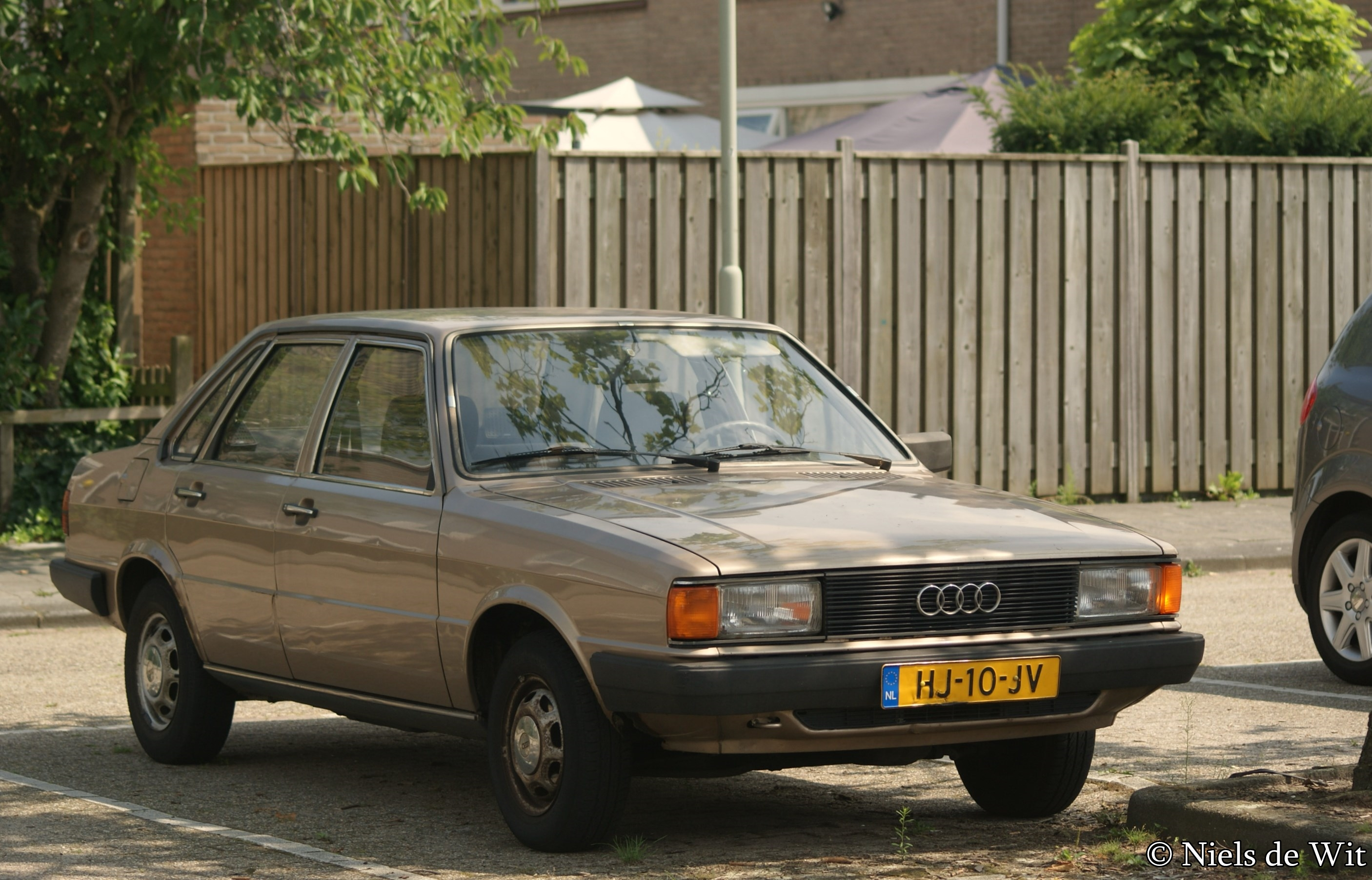 HJ-10-JV Still from its first owner!